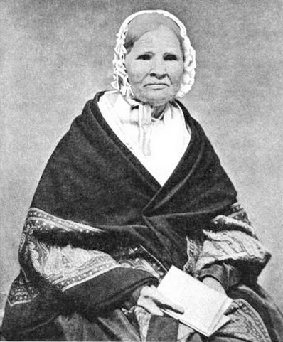 "The Woman Citizen" Mrs. Louisa A. Swain, who lived in Laramie City, Wyoming, and is believed to have been the first woman in the world to exercise unlimited franchise Women's Votes